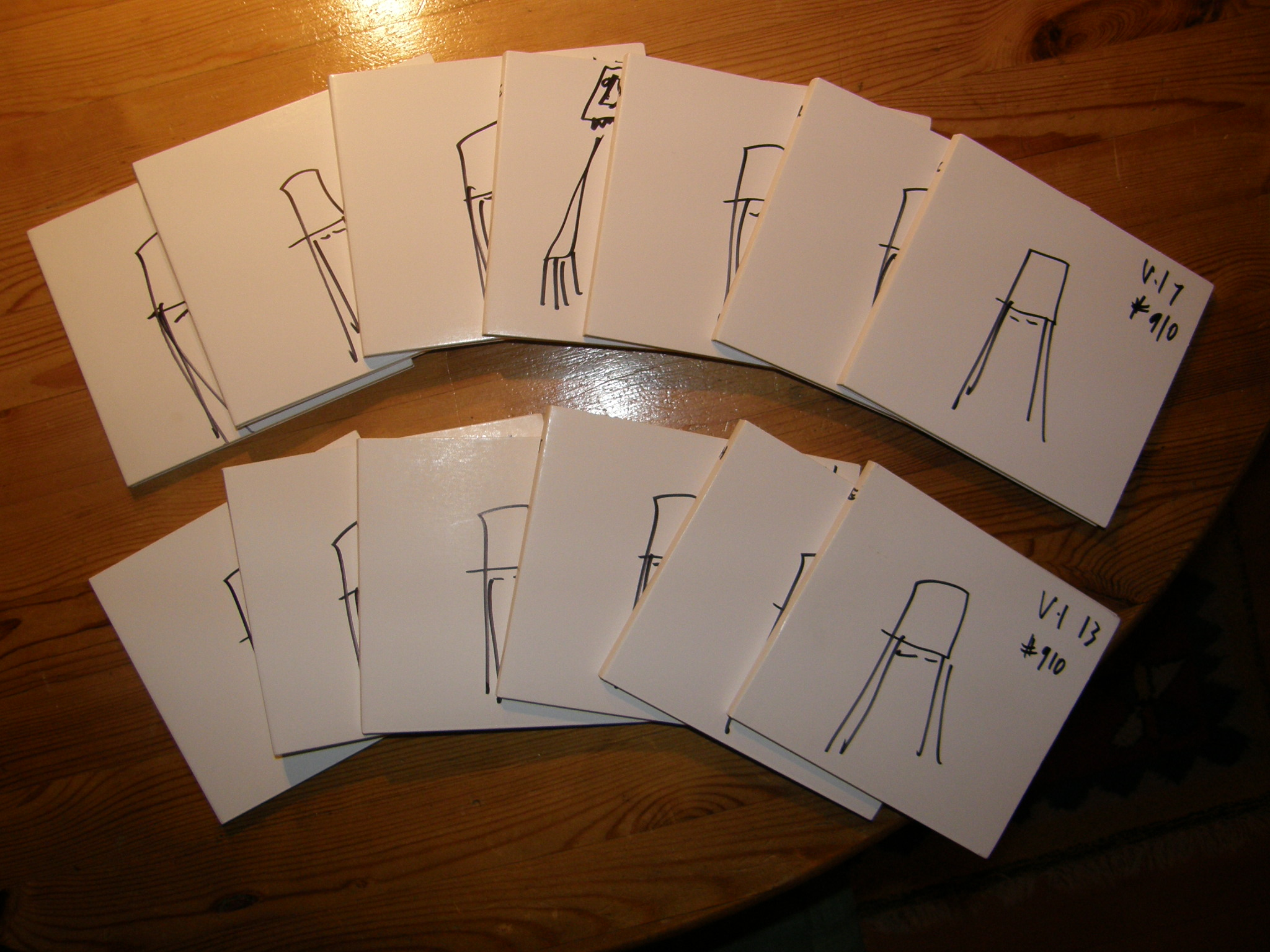 Buckethead - In Search of The Album #910